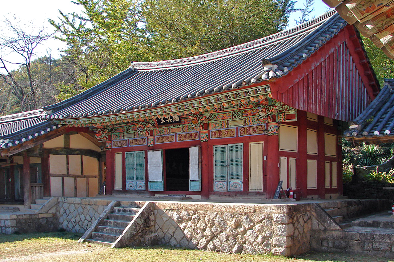 Seonam Temple, Seonamsa, is a Korean Buddhist temple located on the eastern slope at the west end of Mount Jogyesan Provincial Park, within the northern Seungjumyeon District of the city of Suncheon, Jeollanamdo Province, South Korea. The name Seonam (Heavenly Rock) is derived from the legend that a heavenly being once played the game of Go here. Legend states that in 529 CE missionary-monk Ado built a hermitage at this site on the eastern slope of Jogyesan and named it Biroam. 350 years later in 861 National Master Doseon Guksa constructed a grand temple here and named it Seonamsa.